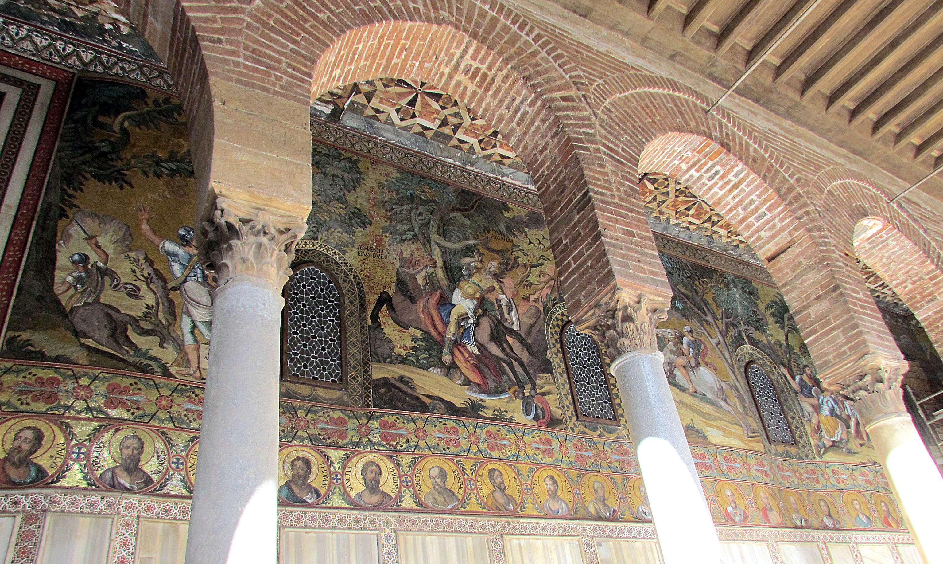 Mosaic of Absalom in the portico (Cappella Palatina, Palermo)